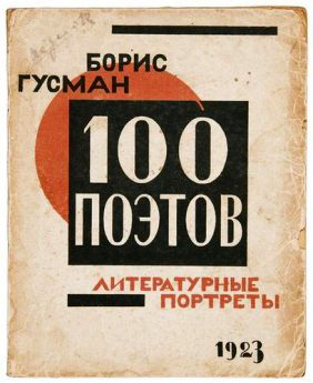 Boris Gusman's 1923 book, 100 Poets.